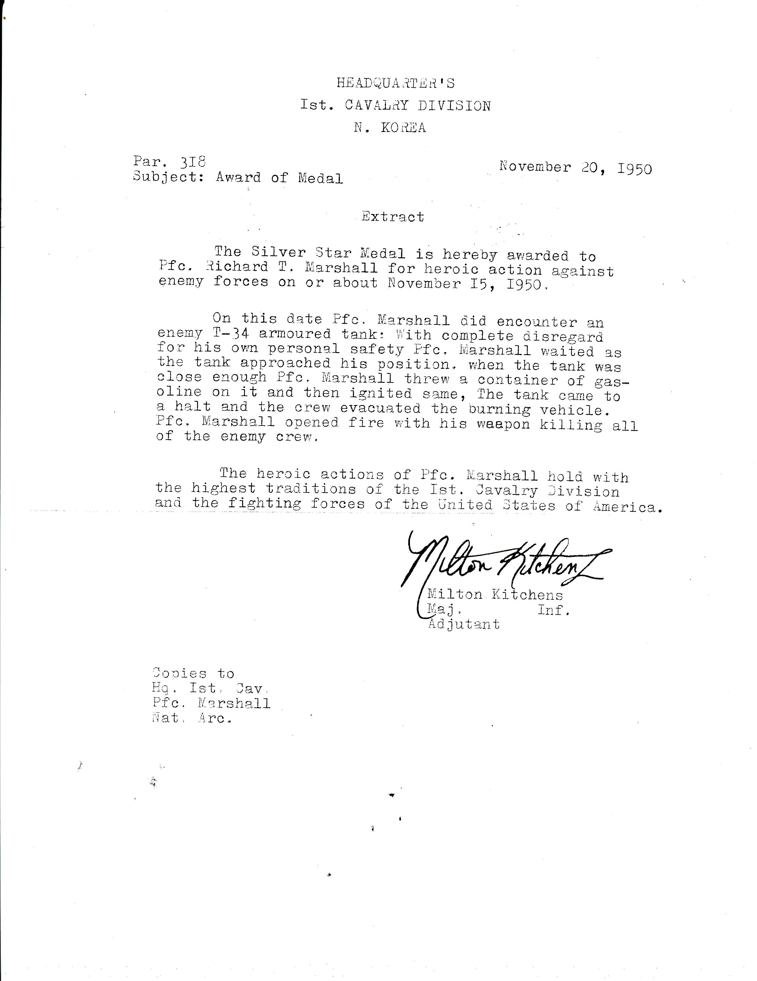 Distinguished Service Cross Distinguished Service Medal with One Cluster Silver Star Medal with one cluster Legion of Merit, Legionaire Bronze Star Medal with three clusters Purple Heart Medal with two clusters Foreign Awards: French Croix De Guerre, same as WW-II British Victoria Cross President Sigmund Rhee Citation with three Clusters. ROK Prisoner of War Medal - two captures both while injured Bronze Star with V devise for Valor (killed 37 of the enemy and 8 of those with hand to hand combat) 1st Cavalry Division recognition of Silver Star Medal Singularly killed entire crew of enemy tank